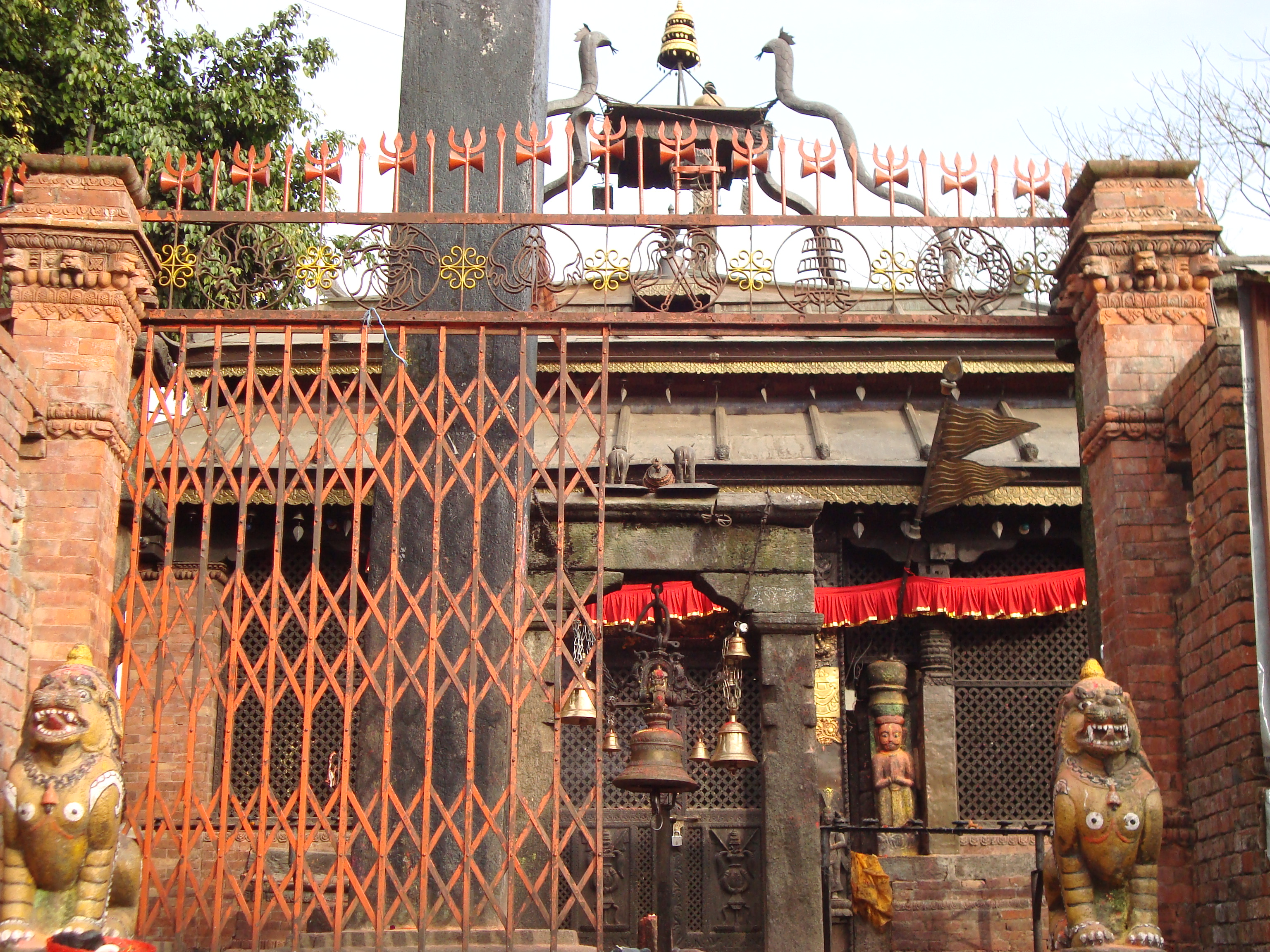 A temple in Dolkha district in Nepal.